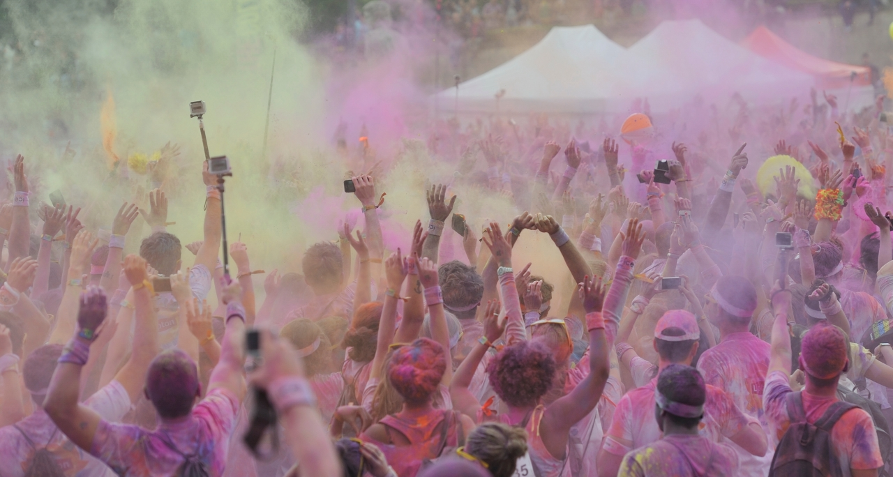 The Color Run in Paris, 2014.